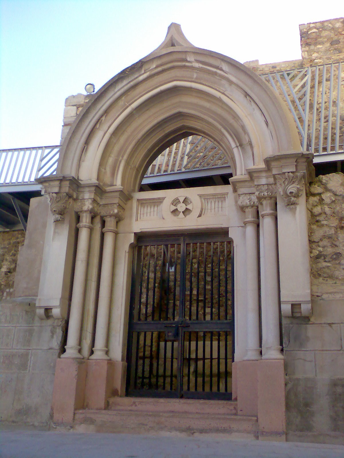 Side door by which it agreed to the Cartagena's Cartagena, Our Lady of the Assumption